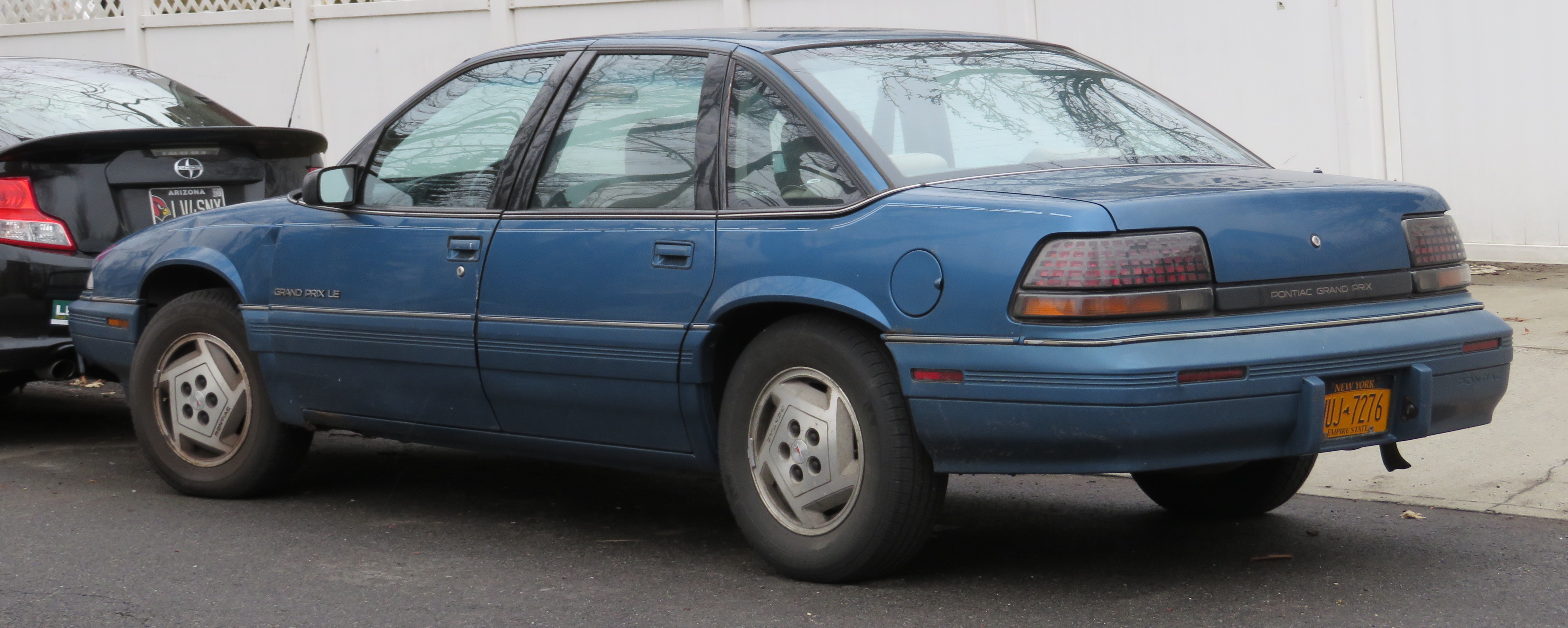 In Queens, New York